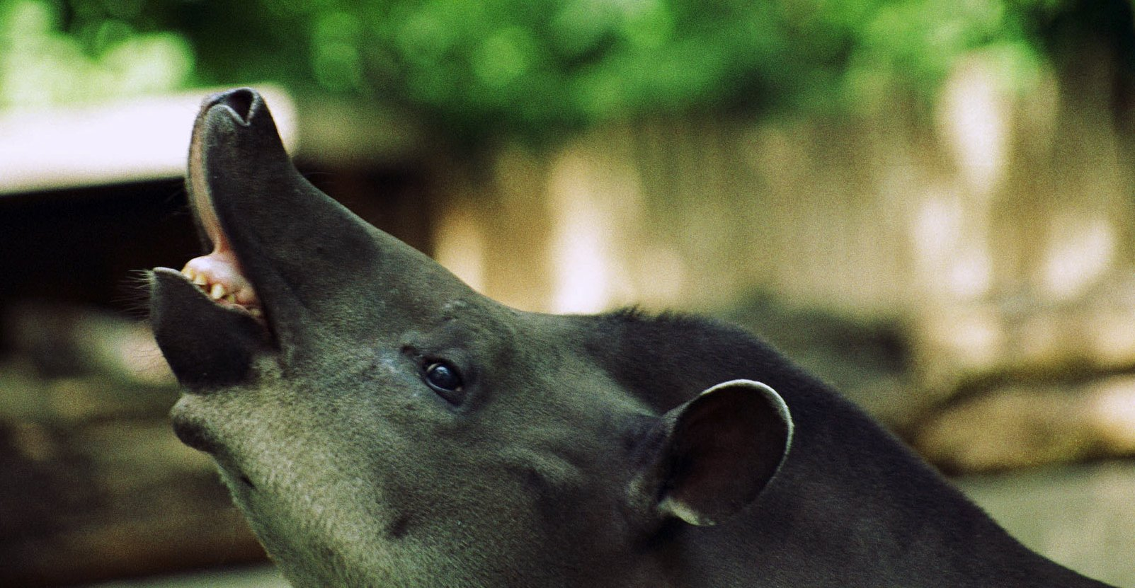 Tapirus terrestris flehmen response (not T. indicus)